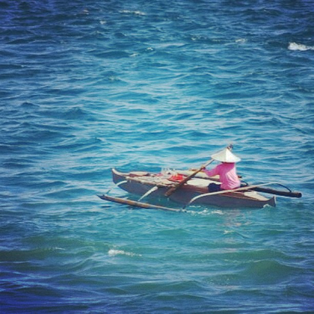 Badjaos as we call them in Mindanao Region' -zamboangacity -mindanao -itsmorefuninthephilippines -maehabasolophotography -badjao -bluesea -locals -govisitphilippines -instapic -instagram -instalike -followme -clicklike -giveloveifthisin